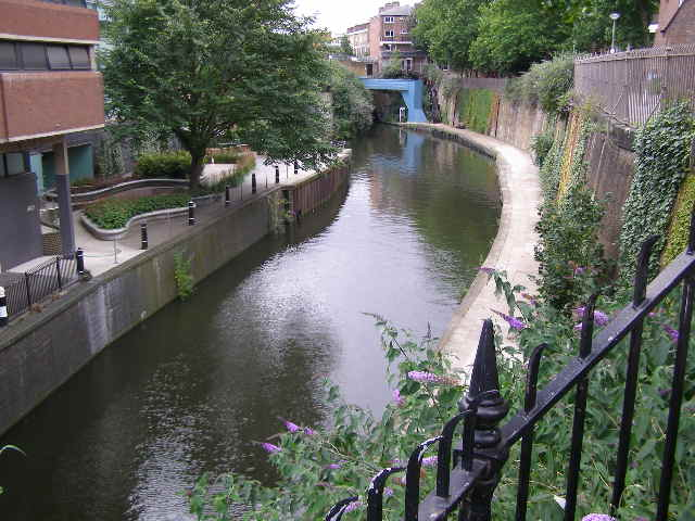 Regent's Canal, Lisson Grove The canalside former towpath is visible on both sides.